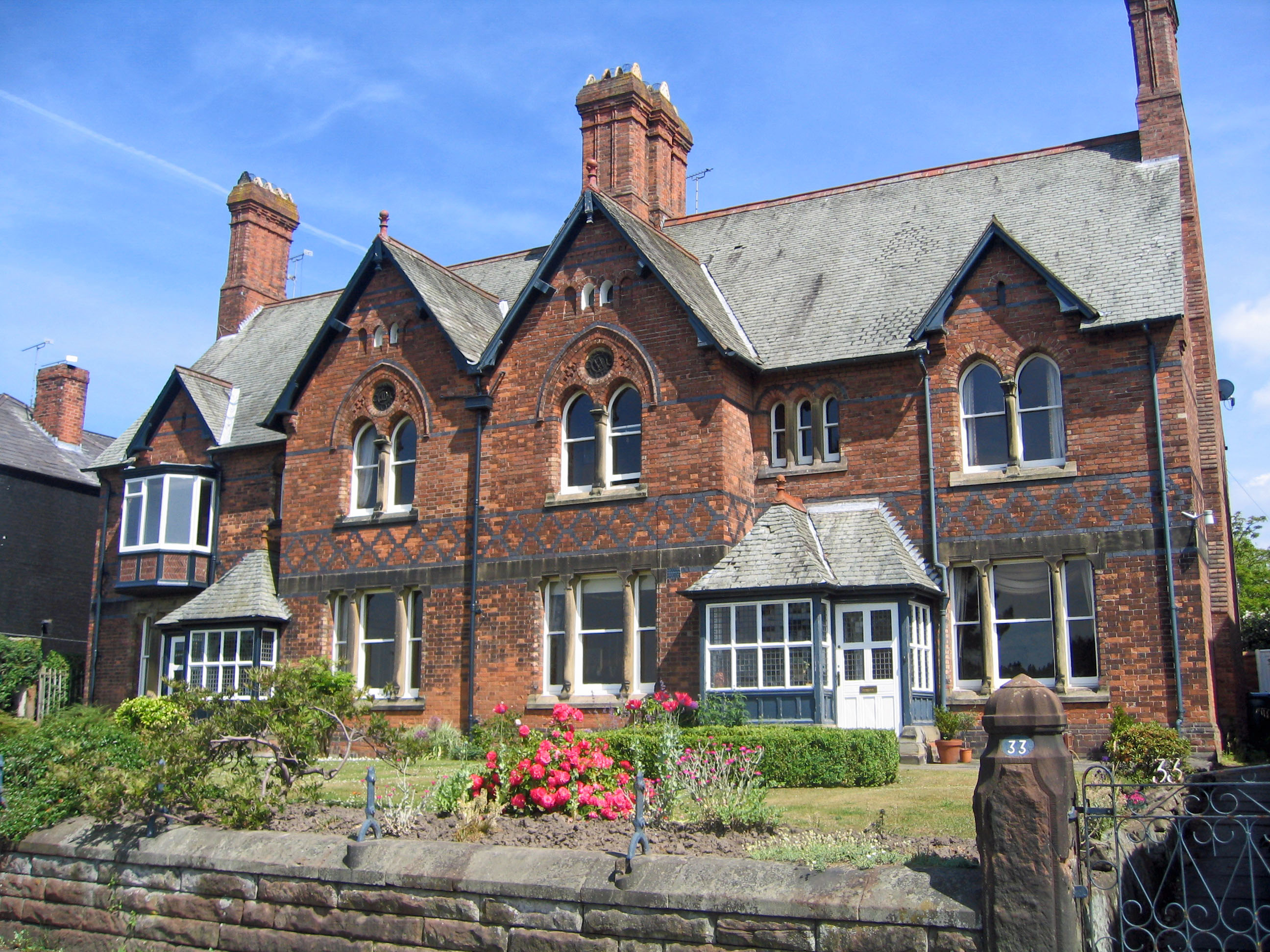 31 and 33 Dee Banks, Chester, Cheshire, England: the first home of John Douglas